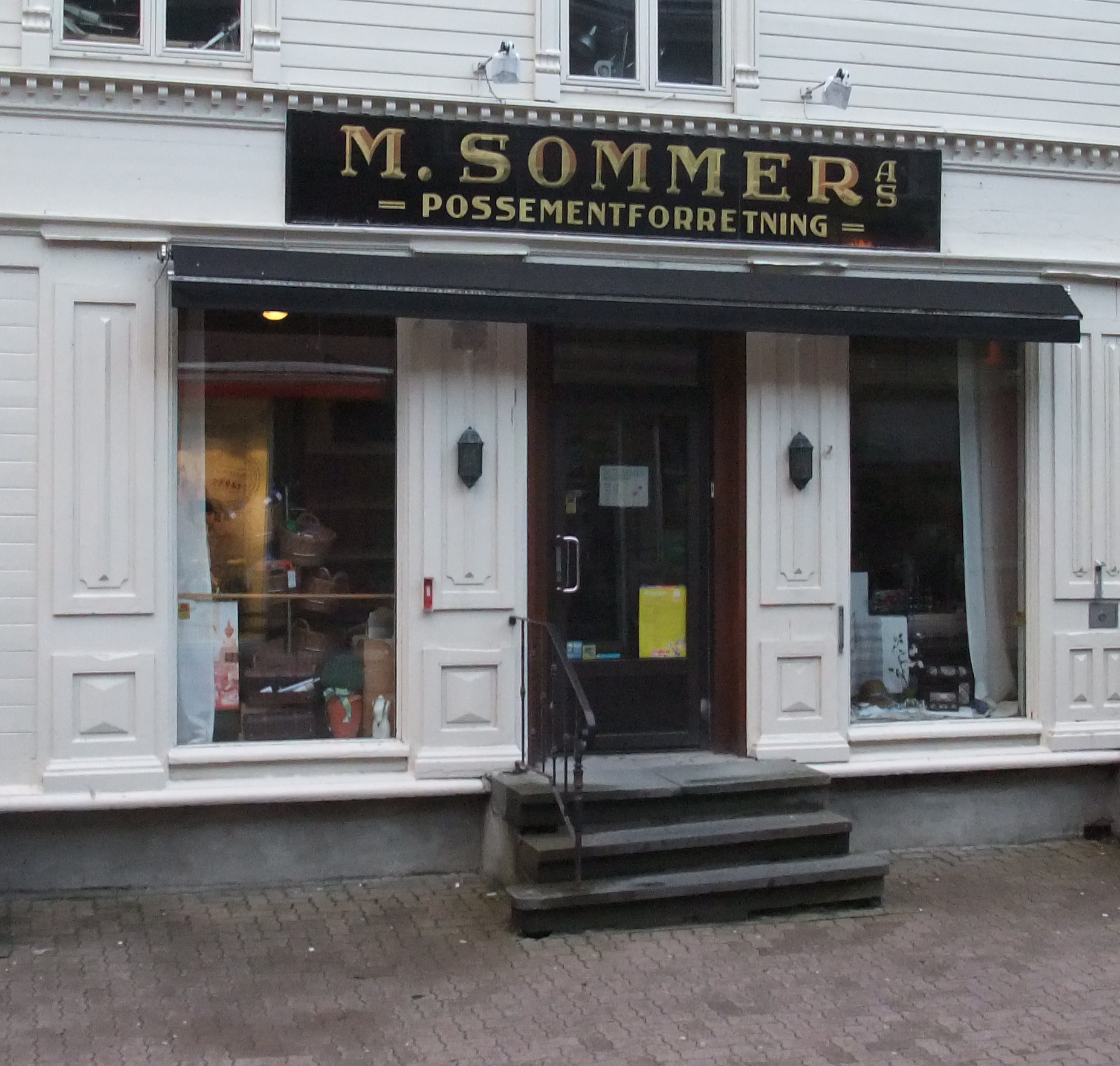 Passementerie